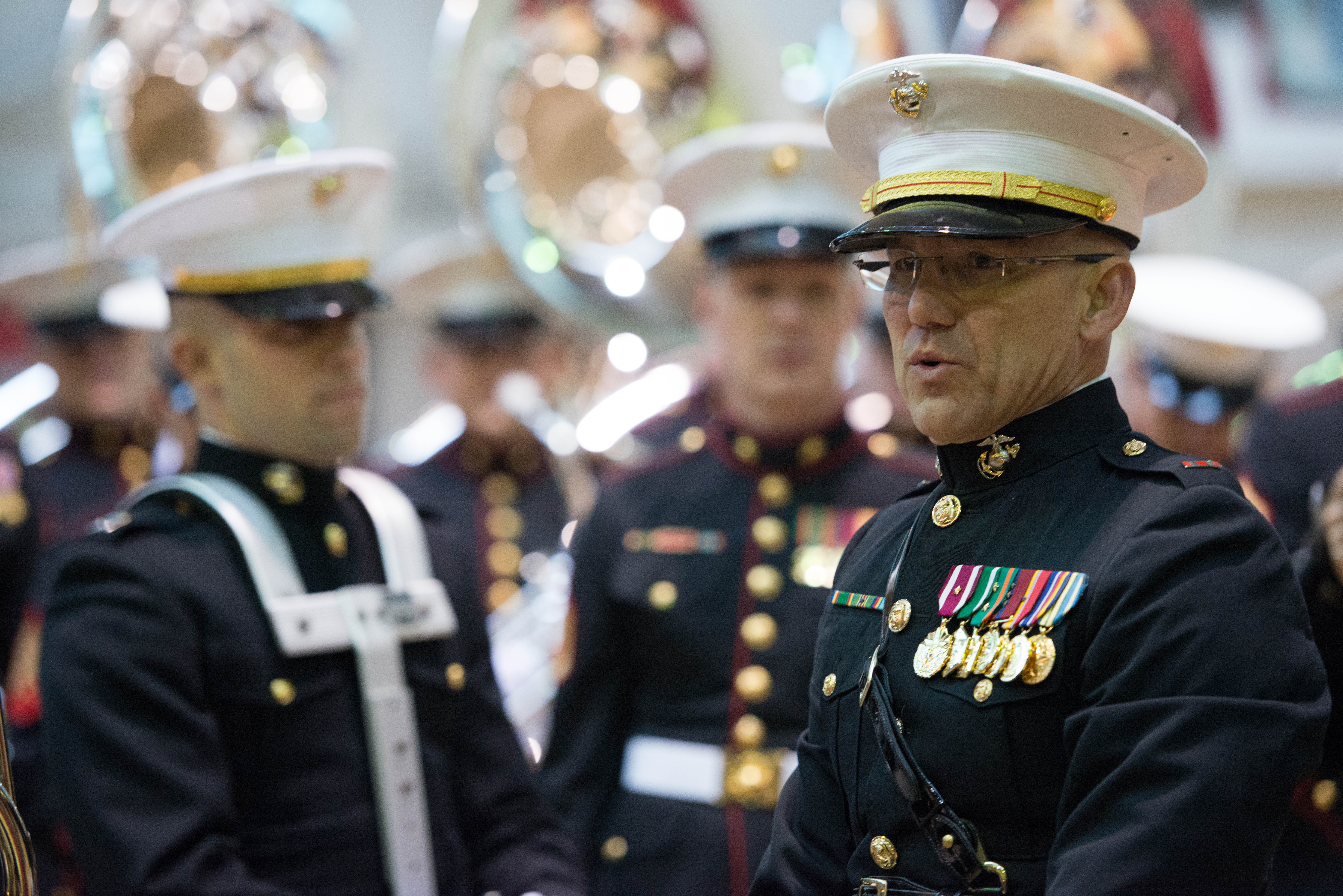 Chief Warrant Officer 4 Robert Szabo, the director and officer in charge of the East Coast Marine Corps Composite Band, speaks with musicians during a break in rehearsal at Marine Corps Base Quantico, Va. Nov. 26. The composite band is rehearsing for performance in the Macy's Thanksgiving Day Parade Nov. 28. Szabo has been in the Marine Corps since 1988...